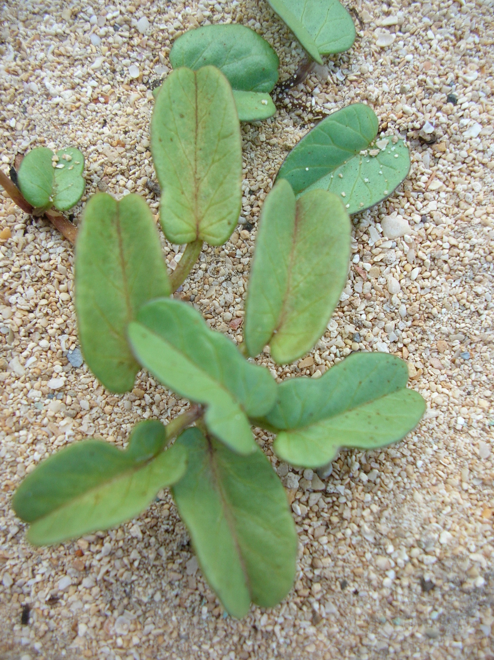 Ipomoea imperati (leaves). Location: Maui, Kanaha Beach